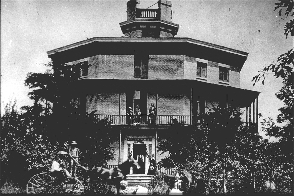 theOctagon House —in Watertown, Wisconsin. Completed in 1856. Image from the 19th century.